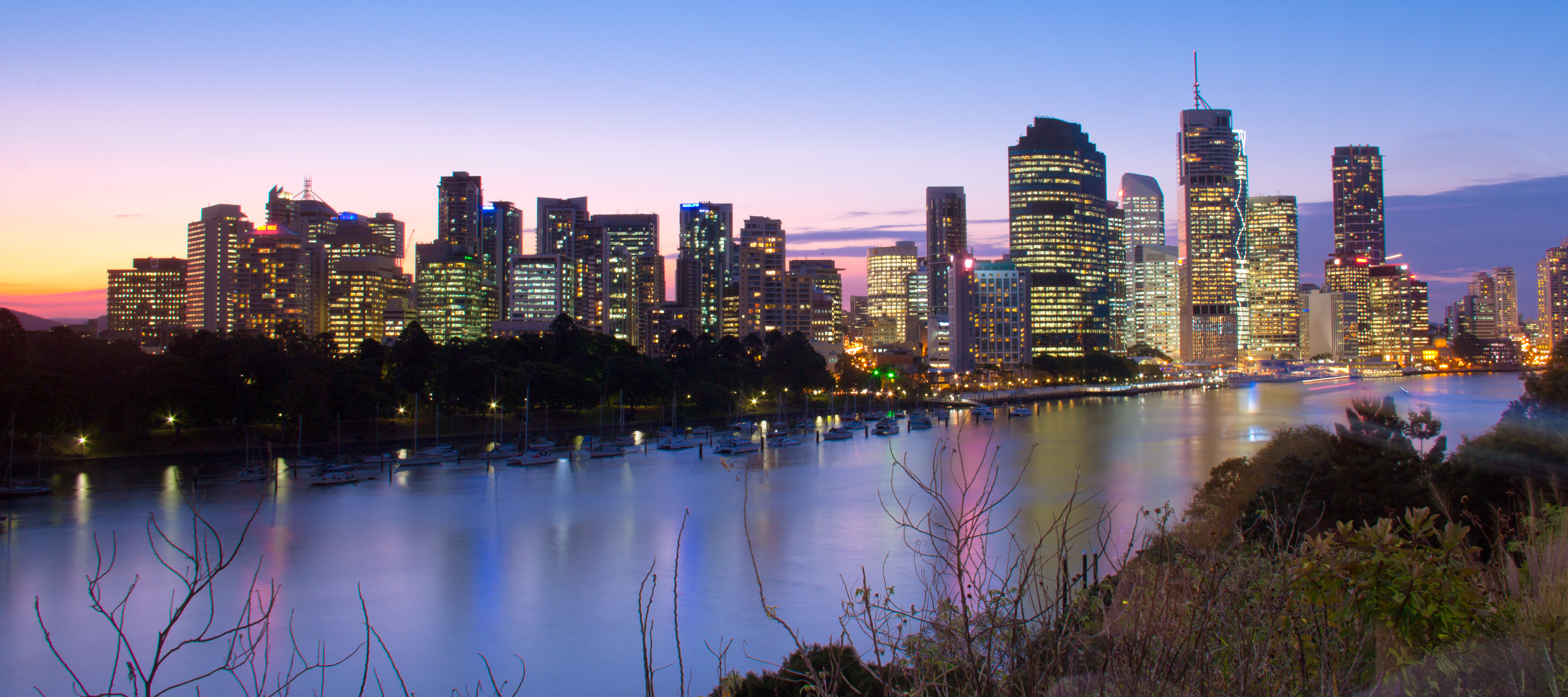 Brisbane skyline